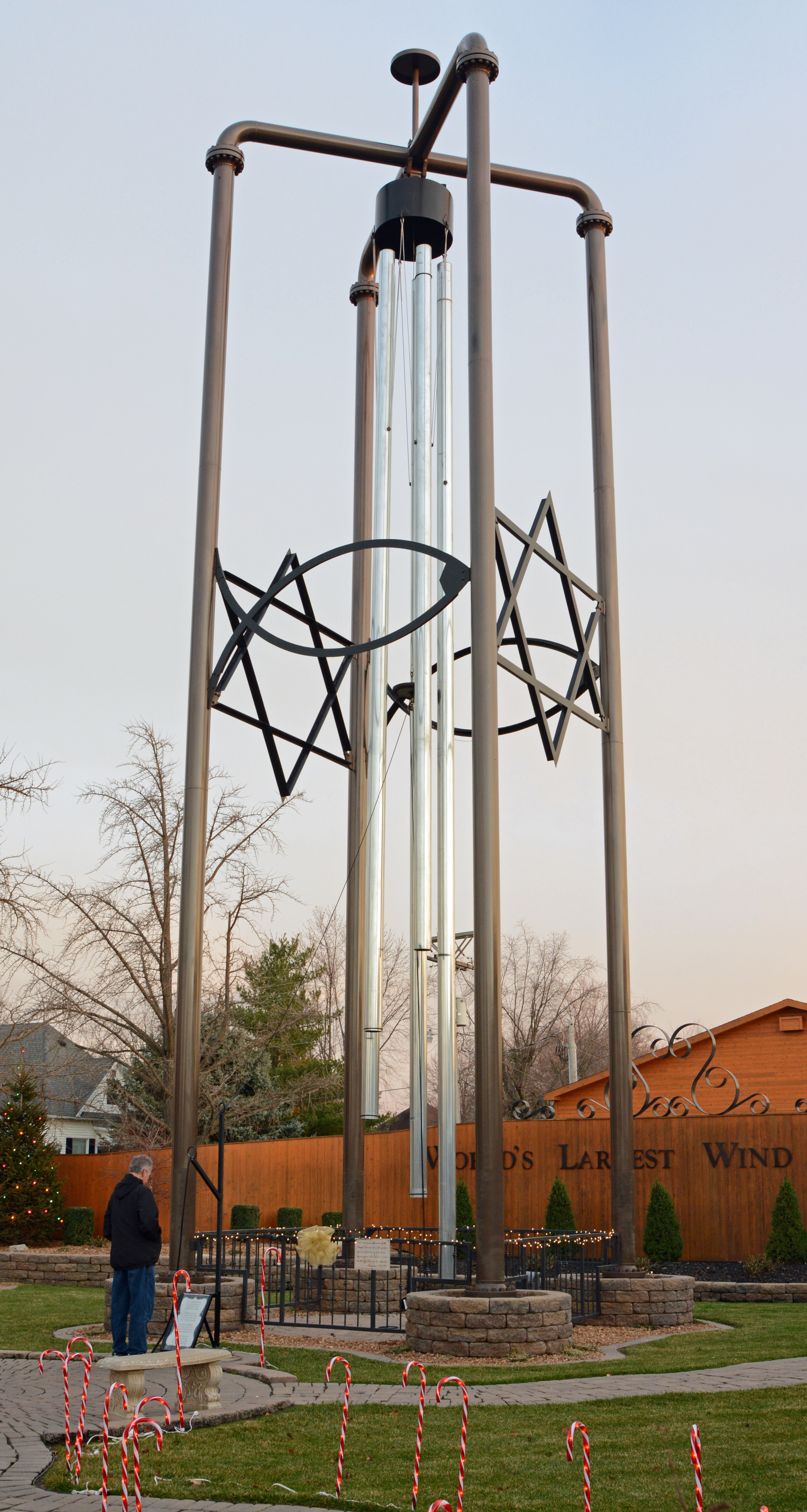 World's largest windchimes (as of 2015), in Casey, Illinois, US